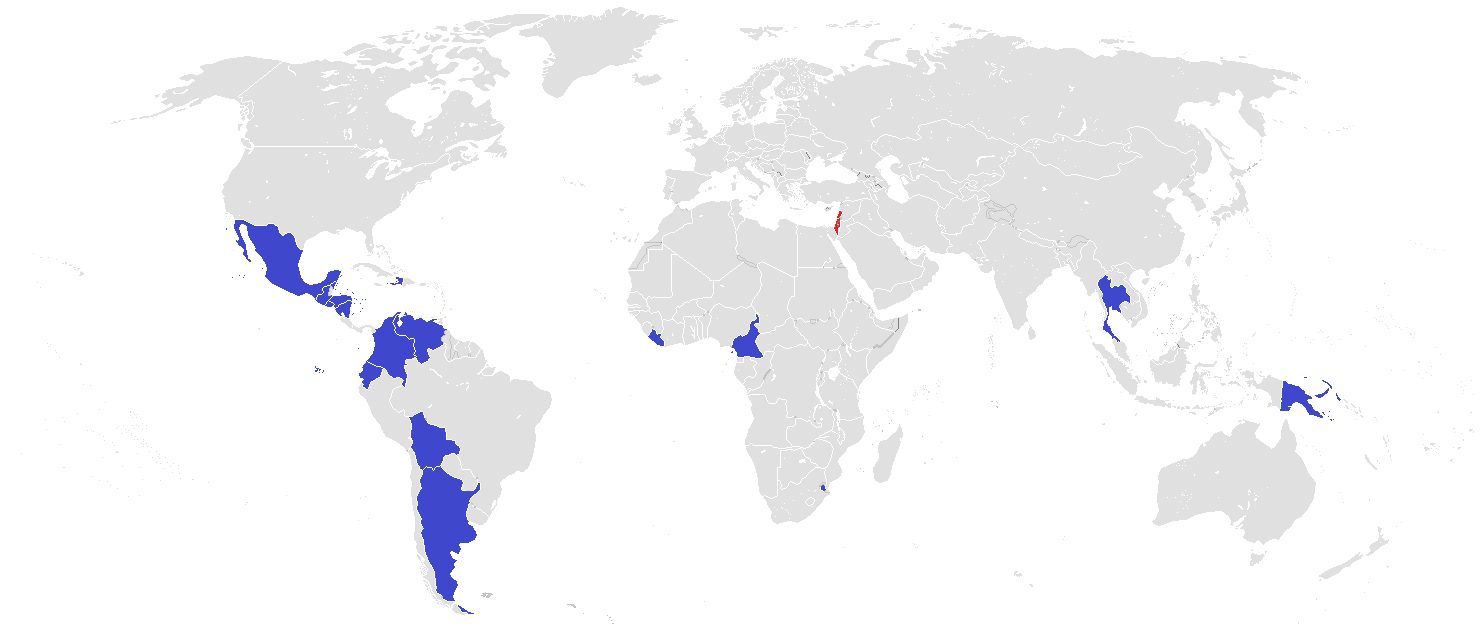 Countries that operate the IAI Arava